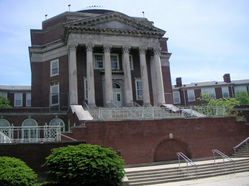 Walnut Hills High School in East Walnut Hills of Cincinnati, Ohio.